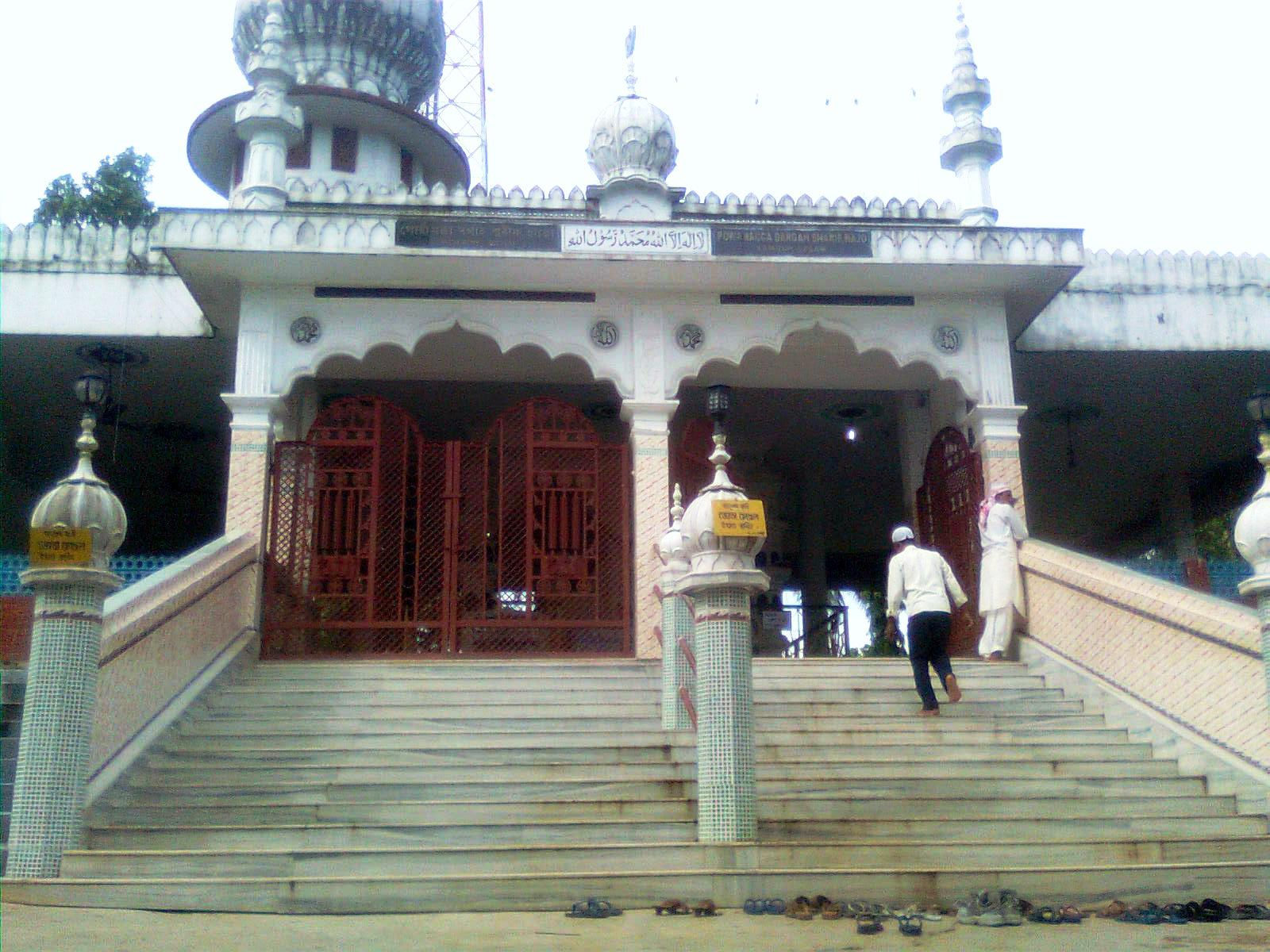 The most famous Muslim pilgrimage spot in Assam, it noted as the tomb of Pir Giasuddin Auliya, who was the pioneer of Islam in this part of the world.